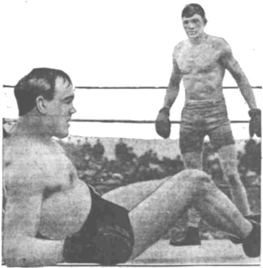 Boxer Gunboat Smith stands over his opponent Arthur Pelkey in the 15th round of their 1914 New Years Day match in San Francisco, California. Smith would defeat Pelkey and be crowned the World White Heavyweight Champion.